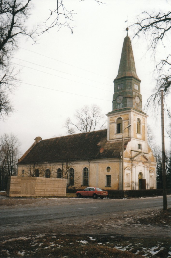 Suntaži Evangelical Lutheran Church